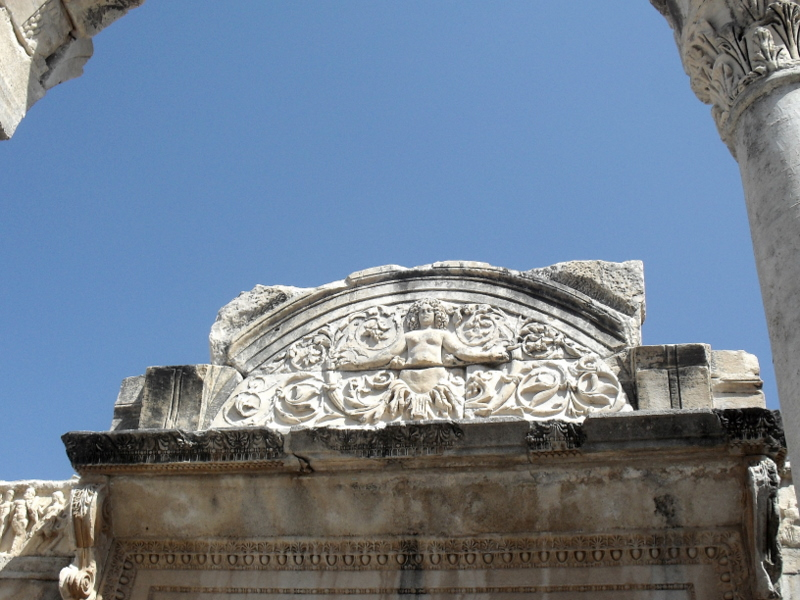 Efez, Hadrian temple detail